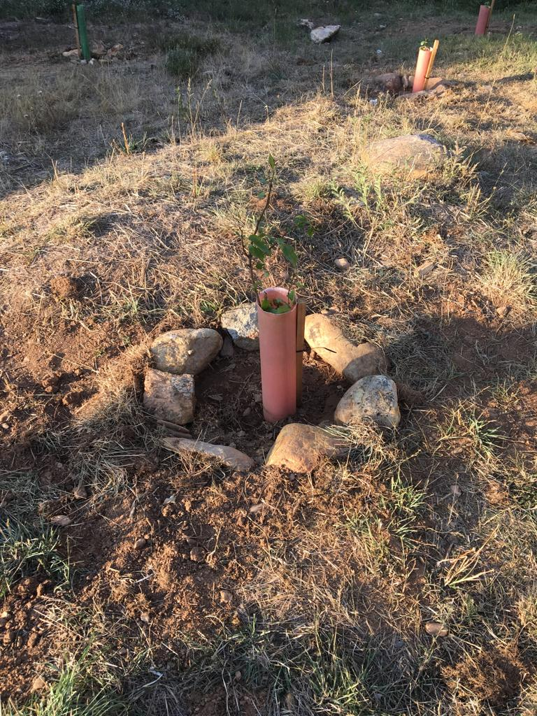 Plantación de árboles en Valdavido